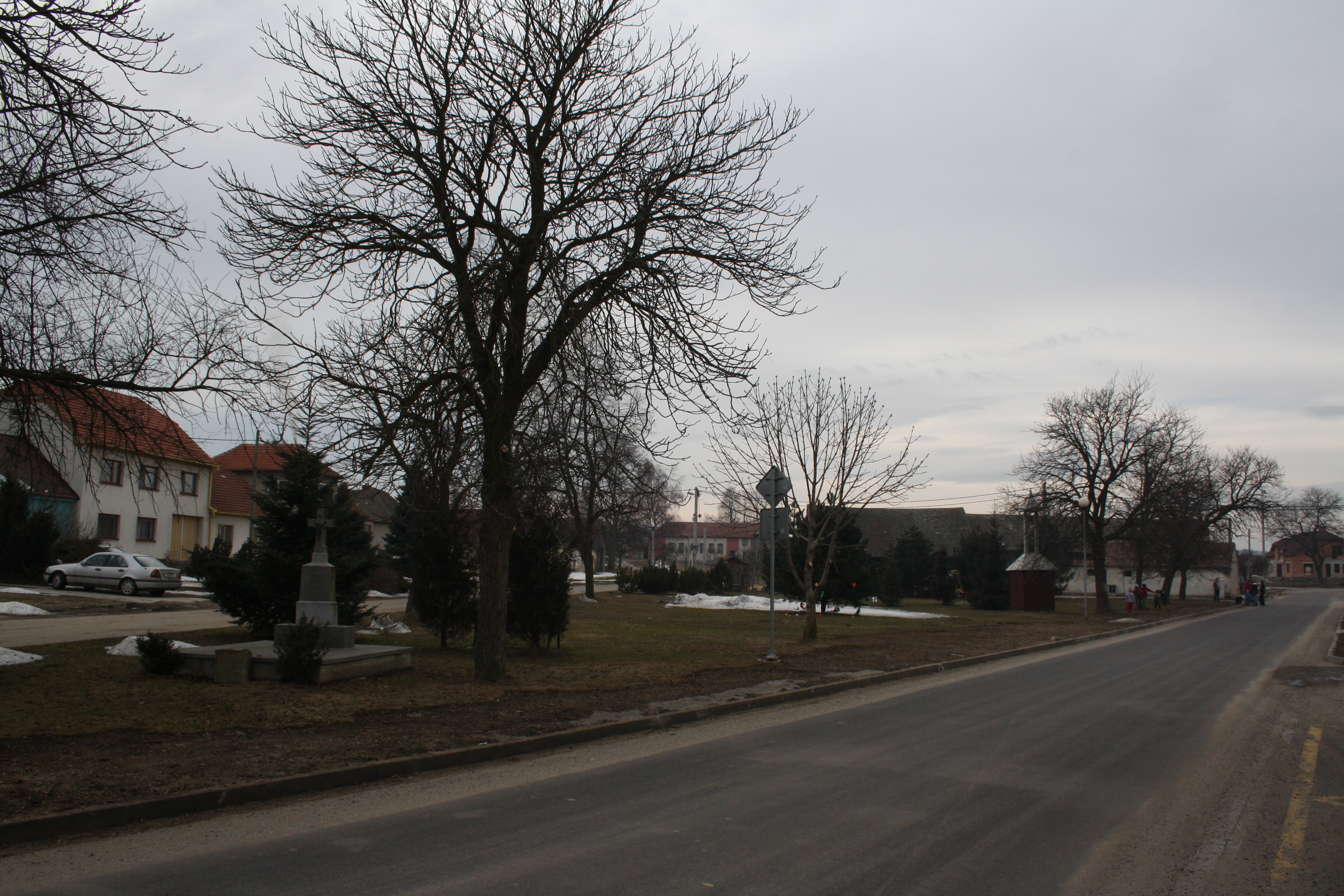 Center of Loukovice.